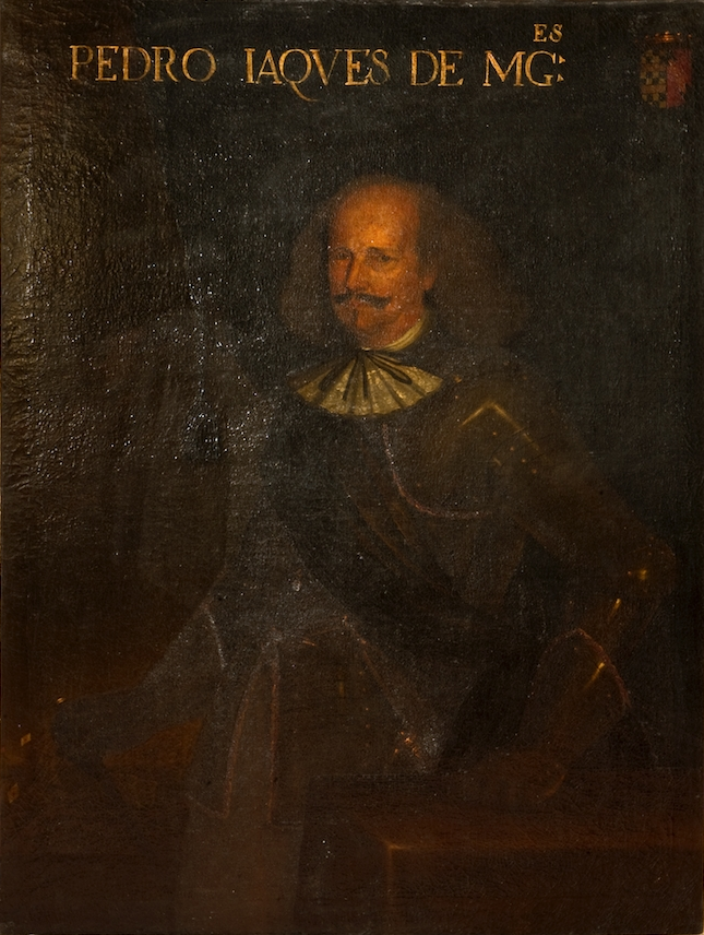 Portrait painting of Pedro Jacques de Magalhães, 1st Viscount of Fonte Arcada (1600-1688), painted 1673-1675 by Feliciano de Almeida. Currently at Galleria degli Uffizi, Florence, Italy.